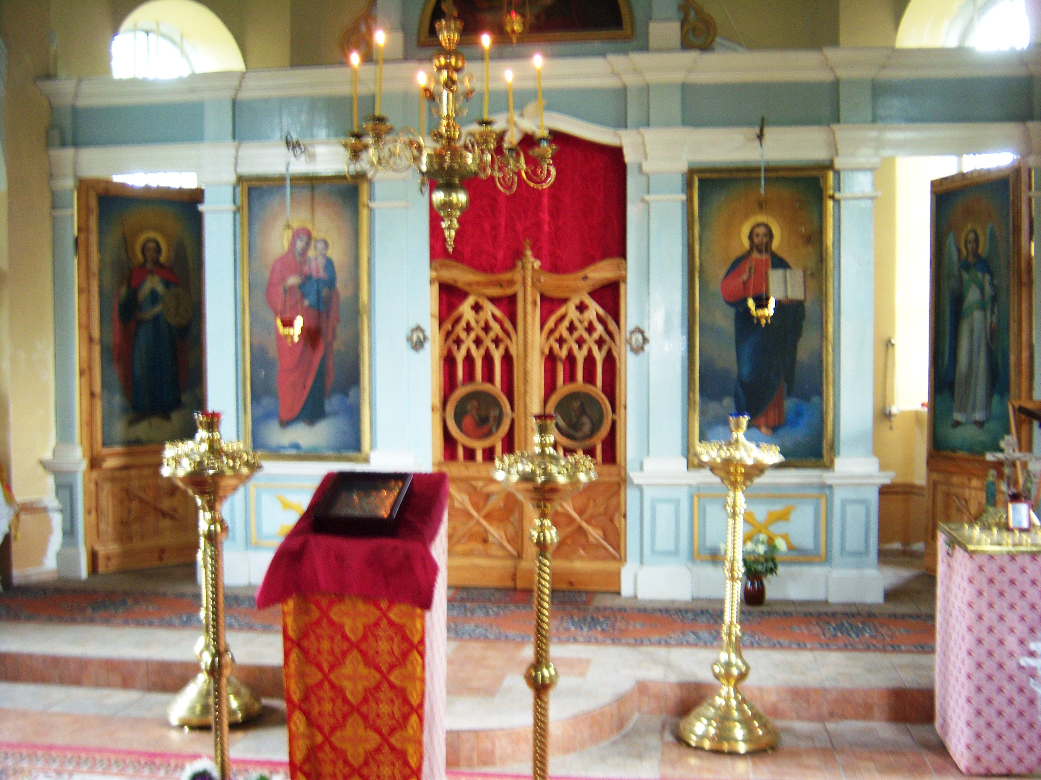 Geisiškės Orthodox Church, interior, Vilnius District, Lithuania